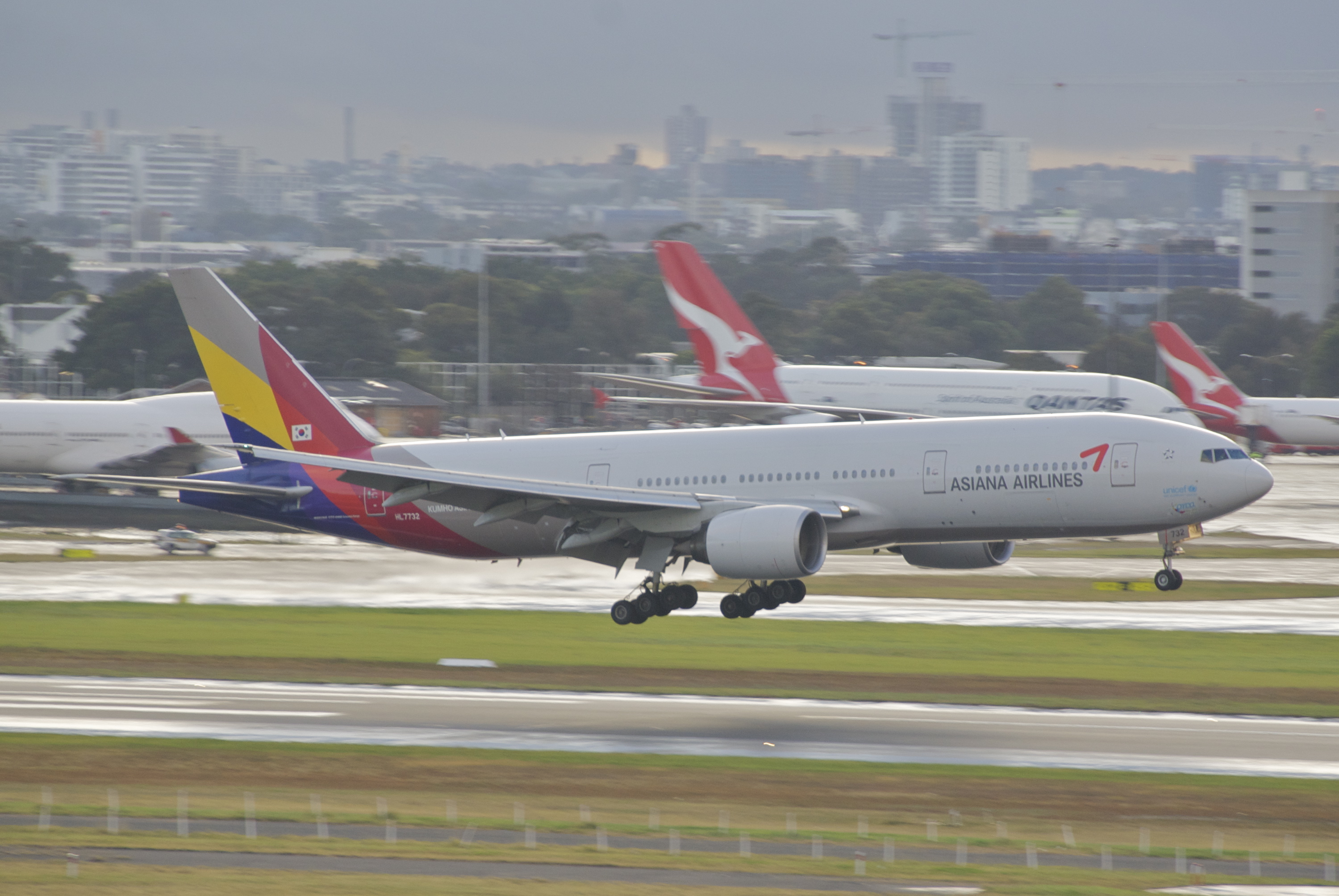 Asiana Airlines Boeing 777-200ER; HL7732@SYD;06.07.2012/661as